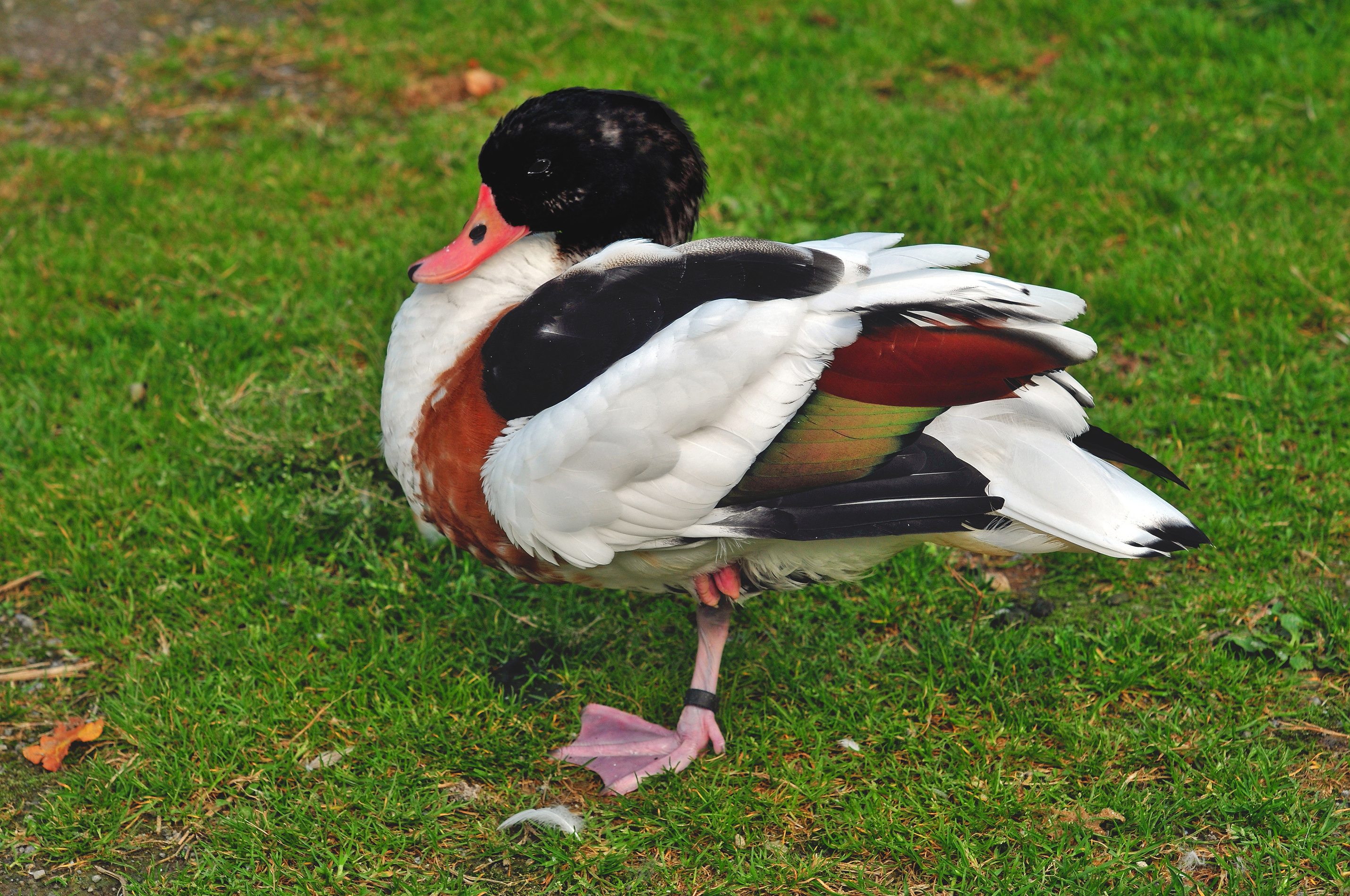 A female Common Shelduck ruffles up her feathers in the Wisentgehege Springe game park near Springe, Hanover, Germany.